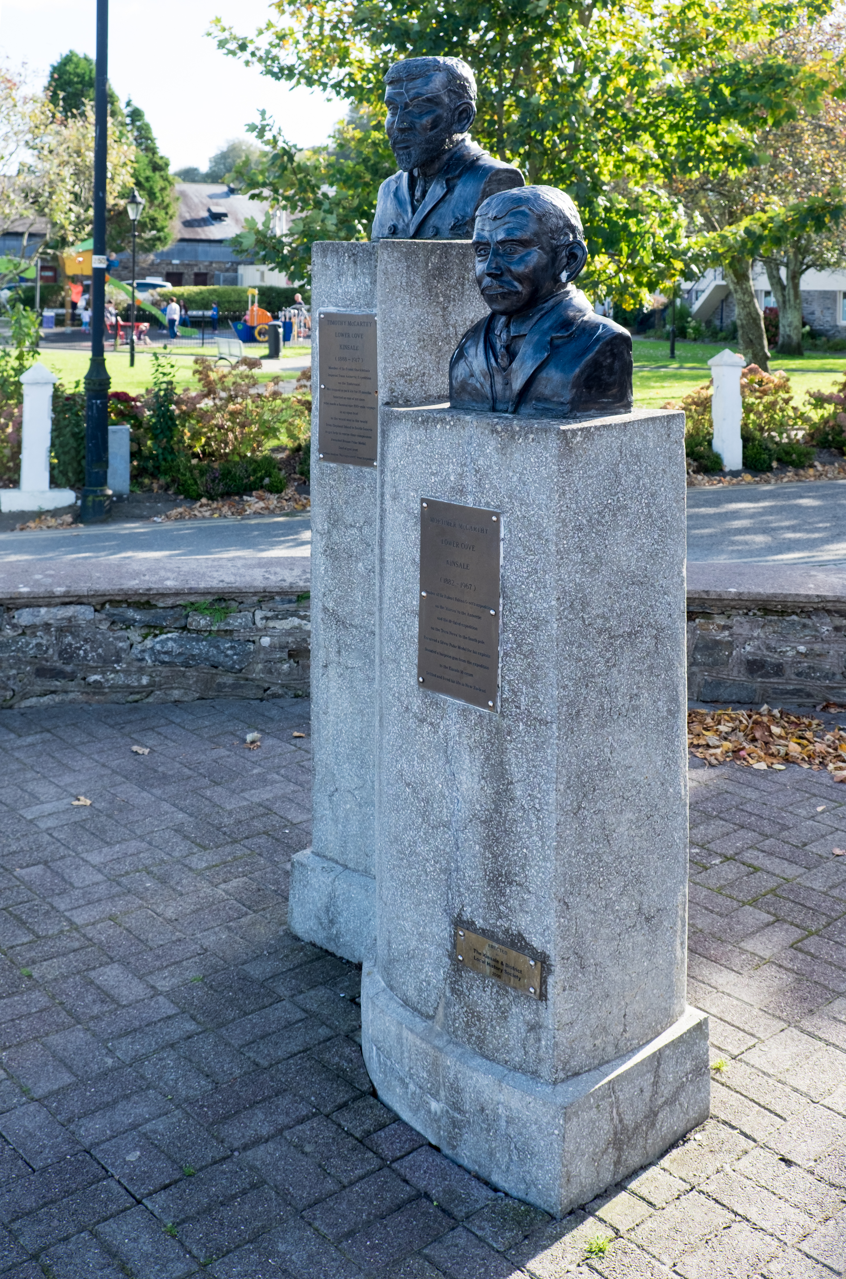 Timothy and Mortimer McCarthy memorial by Graham Brett in Kinsale, Ireland. This memorial, with two bronze busts, was unveiled in September 2000.[1]